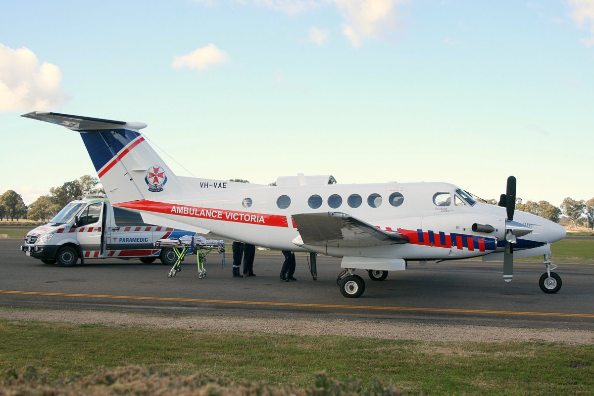 This Beechcraft B200C King Air is operated by Pel-Air under a contract to provide fixed-wing aircraft to the Victorian Air Ambulance service. Digital image of VH-VAE taken by YSSYguy on 14 July 2011 at Wangaratta Airport in Victoria, Australia.